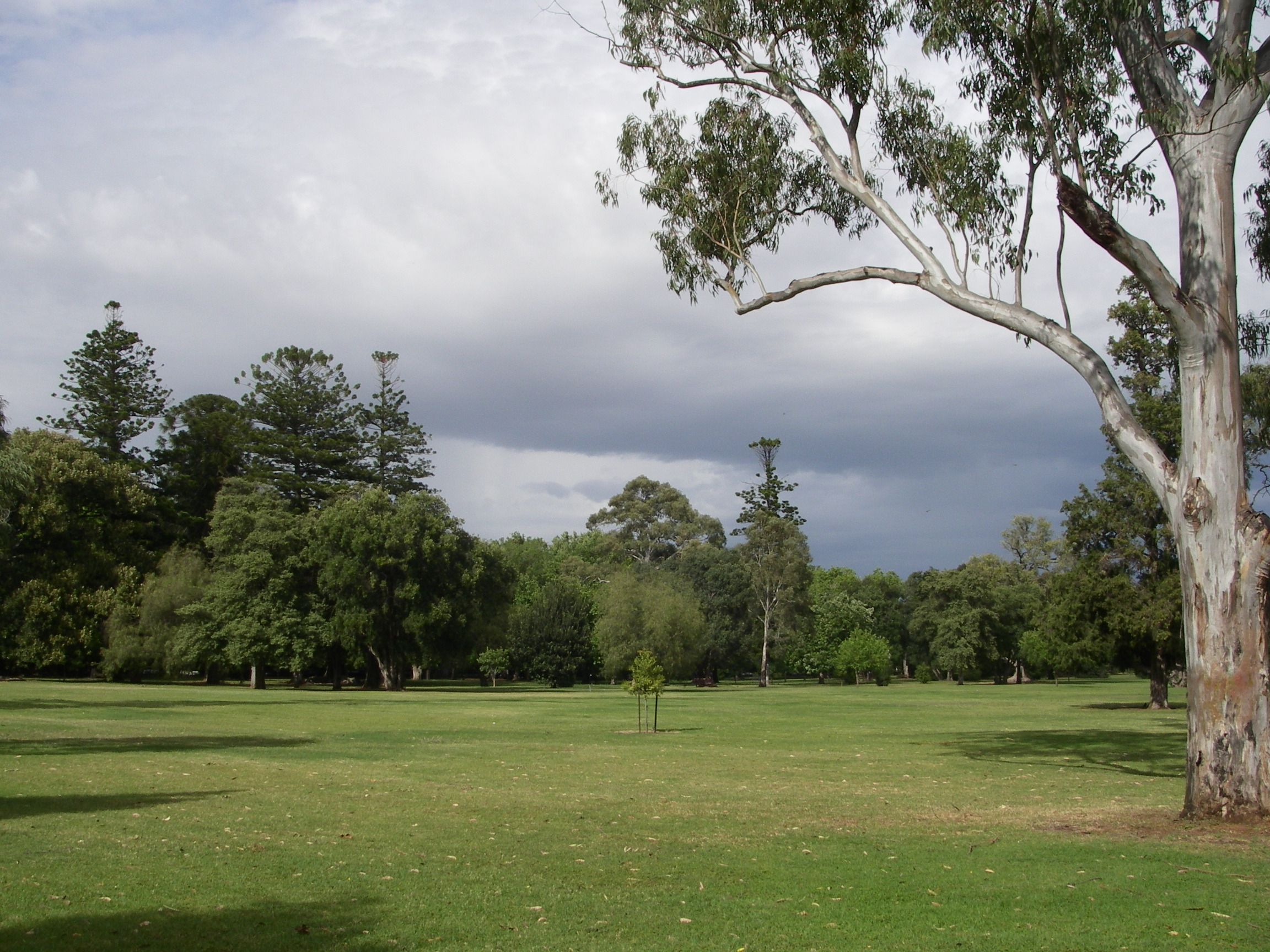 View of Botanic Park in Adelaide, Australia. Photo by User:Yeti Hunter.